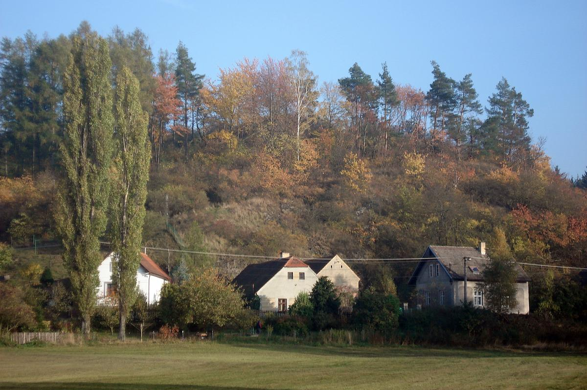 Skomelno village and the hill Hurka.